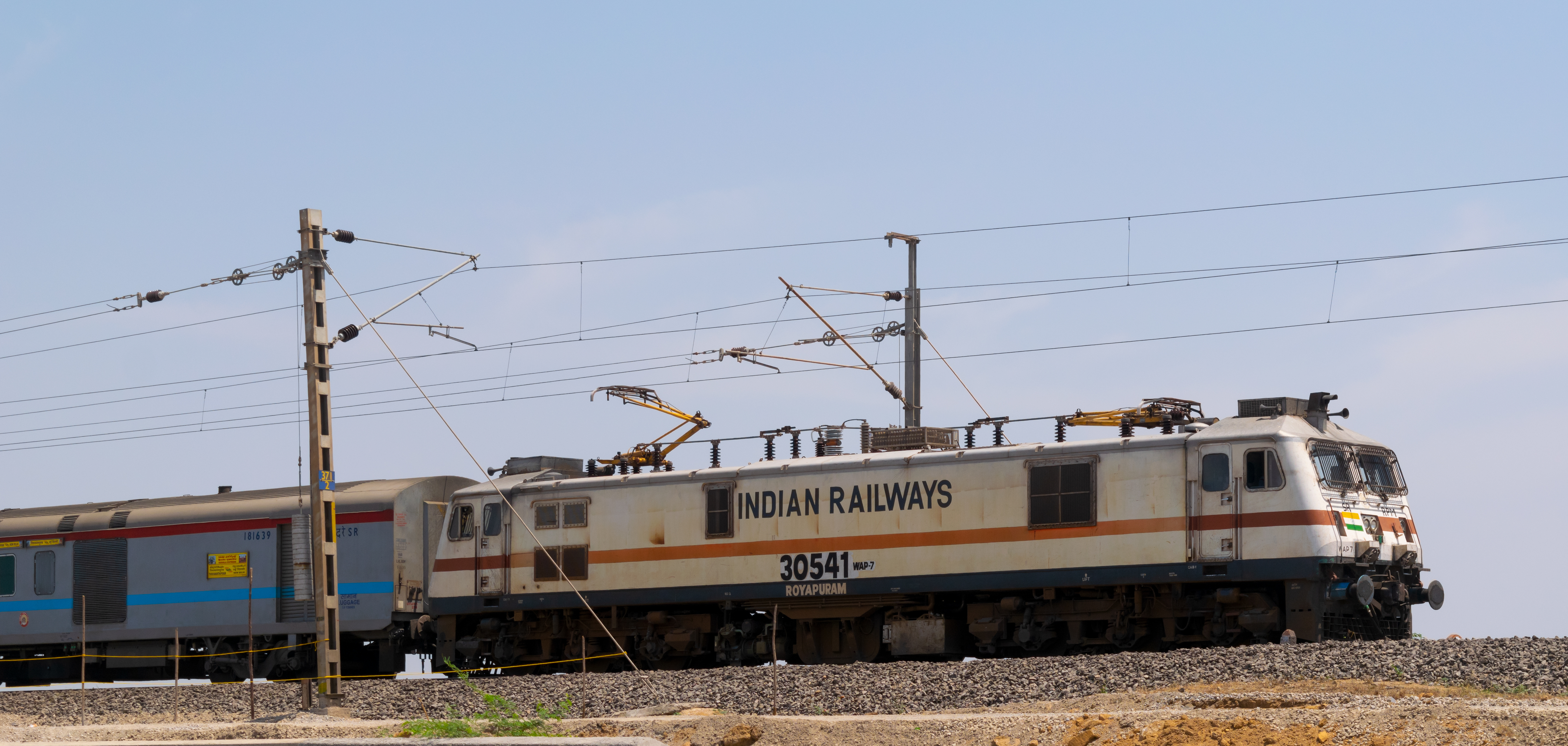 New Delhi-bound 12625 Kerala Express near Warangal